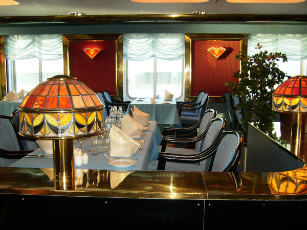 One of the restaurants on Princess Maria board